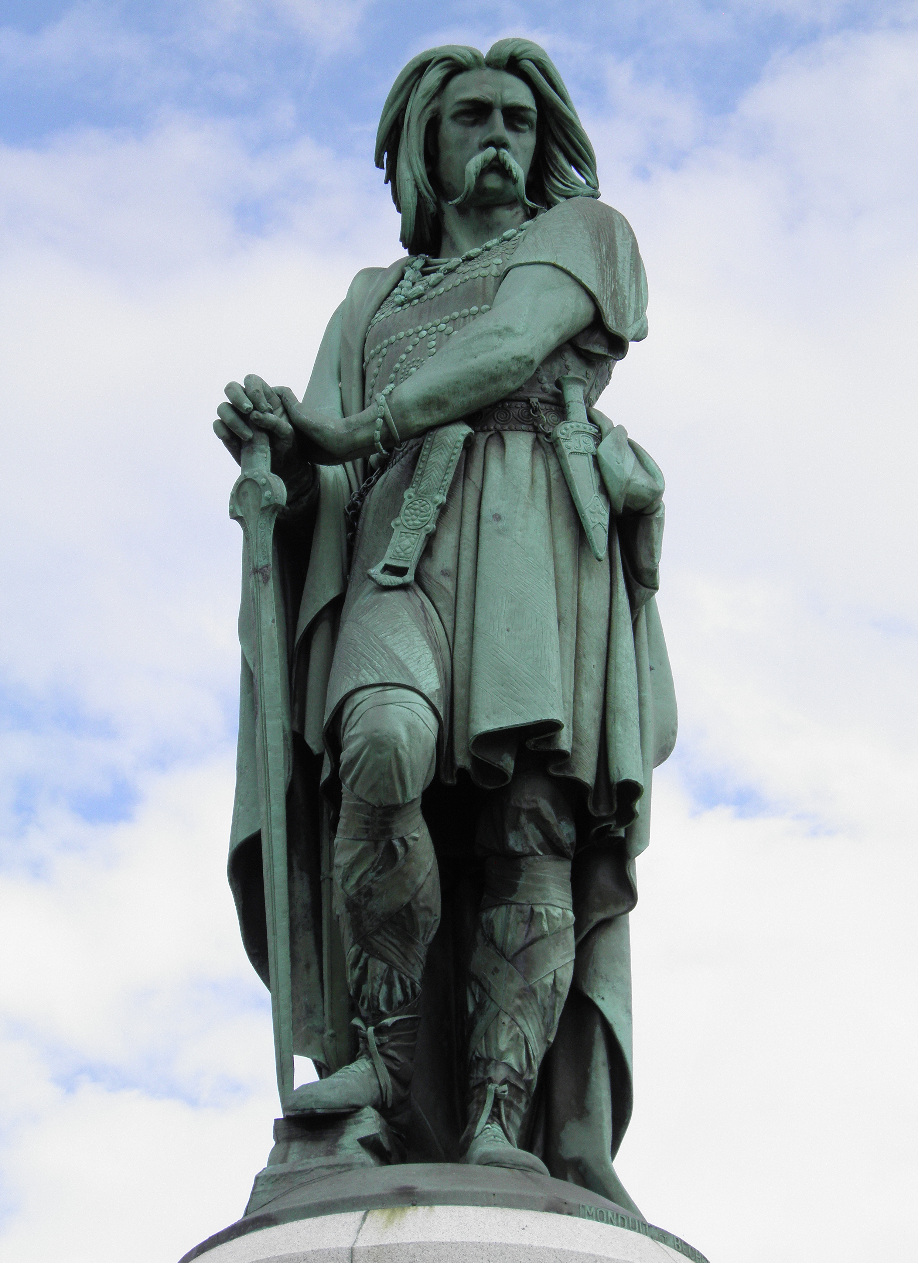 The colossal statue of Vercingetorix, Alesia, Côte-d'Or, France.